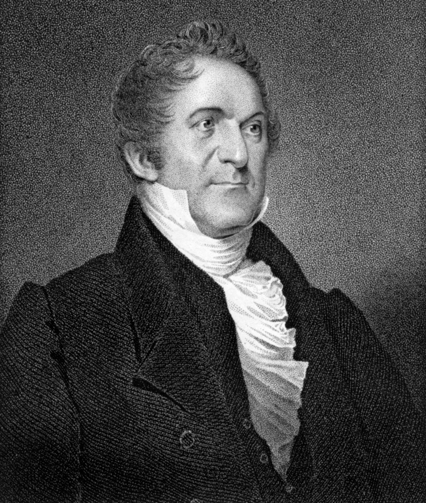 Picture of William Wirt (Attorney General).